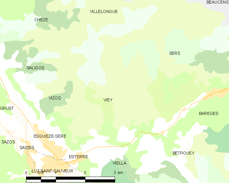 Map of French municipality